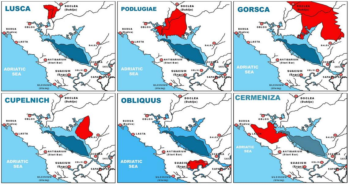 Jezerske župe u XI vijeku.